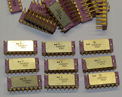 Soviet ICs K565RU7